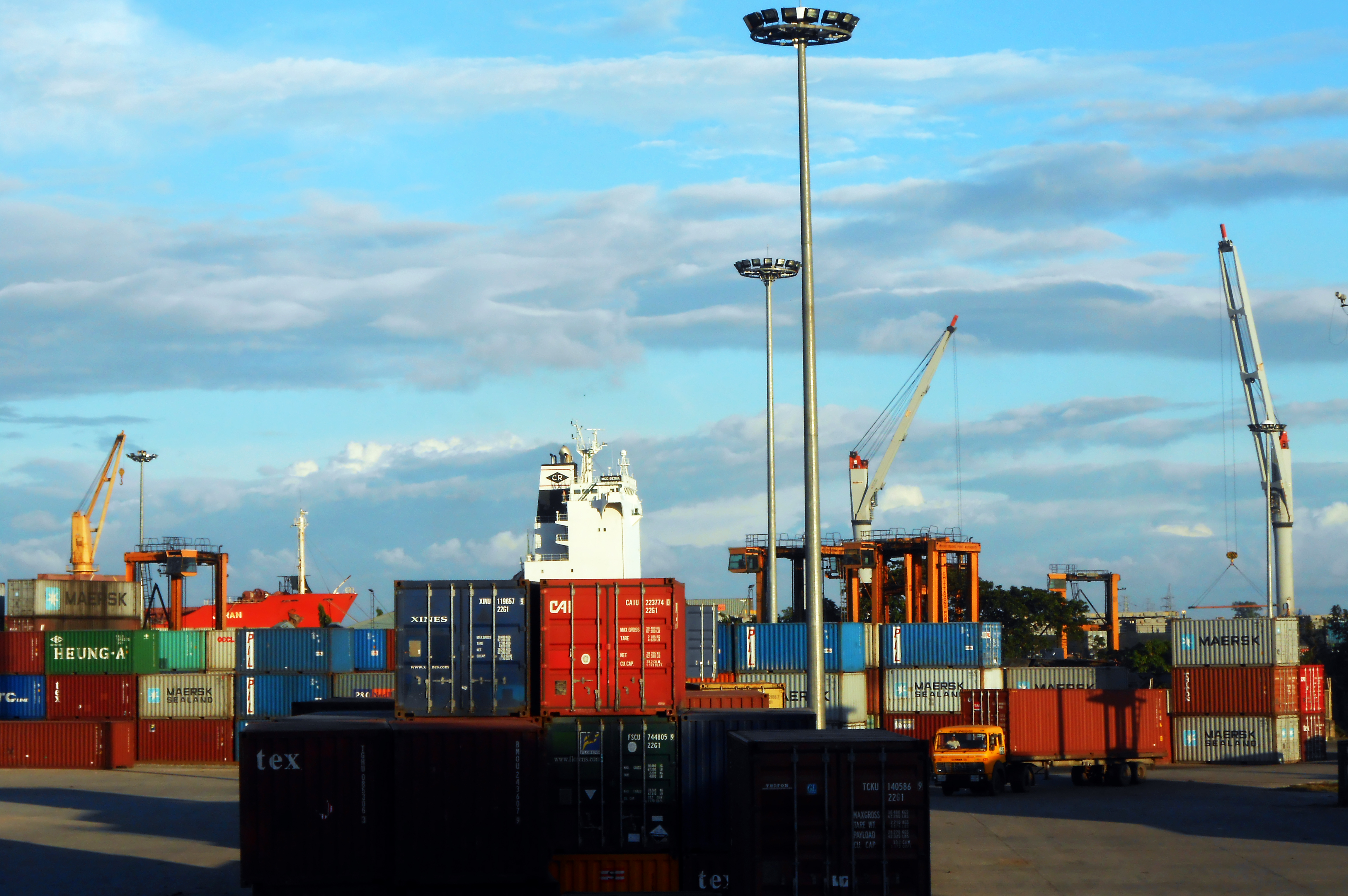 Stacking Intermodal container in Port of Chittagong